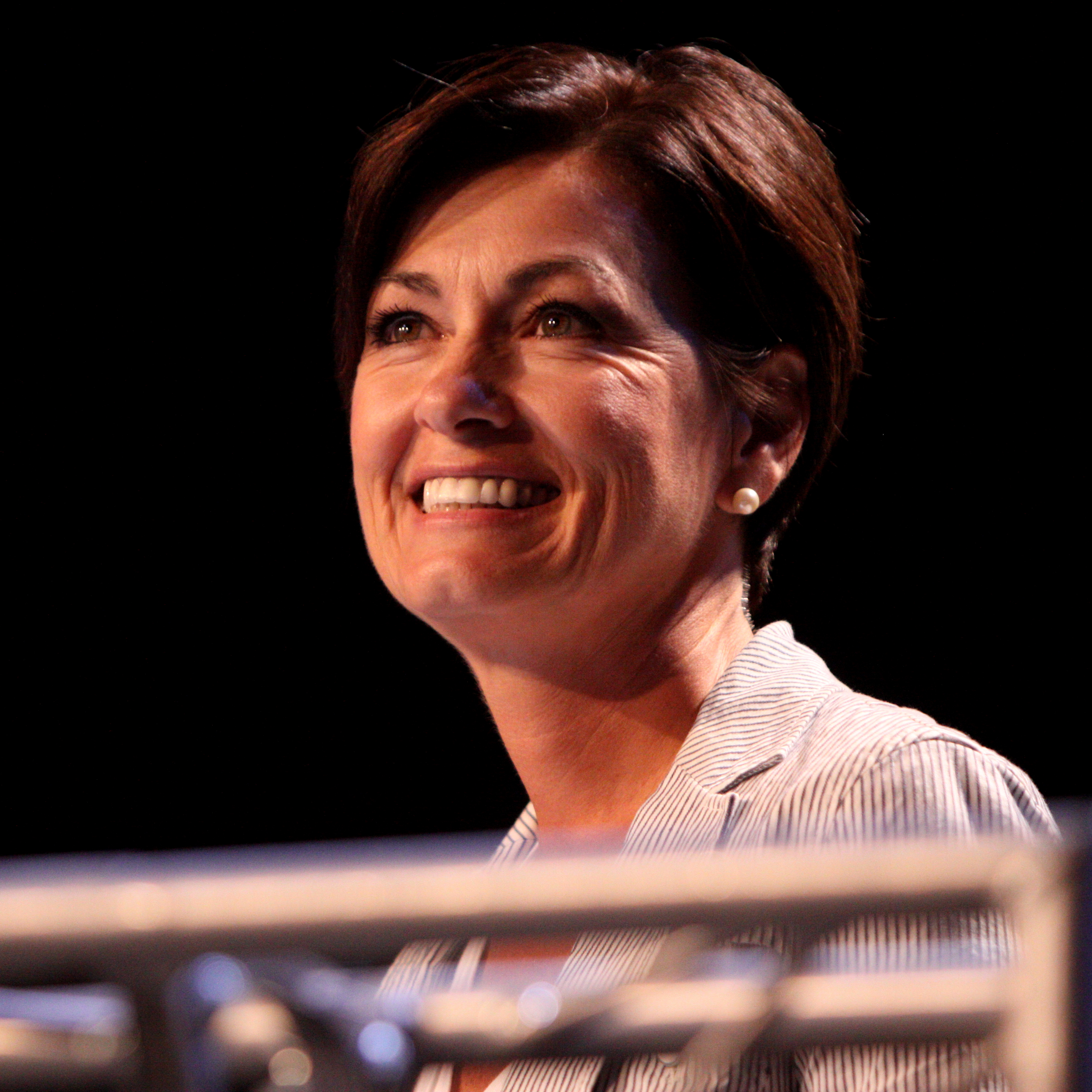 Lt. Governor Kim Reynolds speaking at the Ames, Iowa Straw Poll in Ames, Iowa.